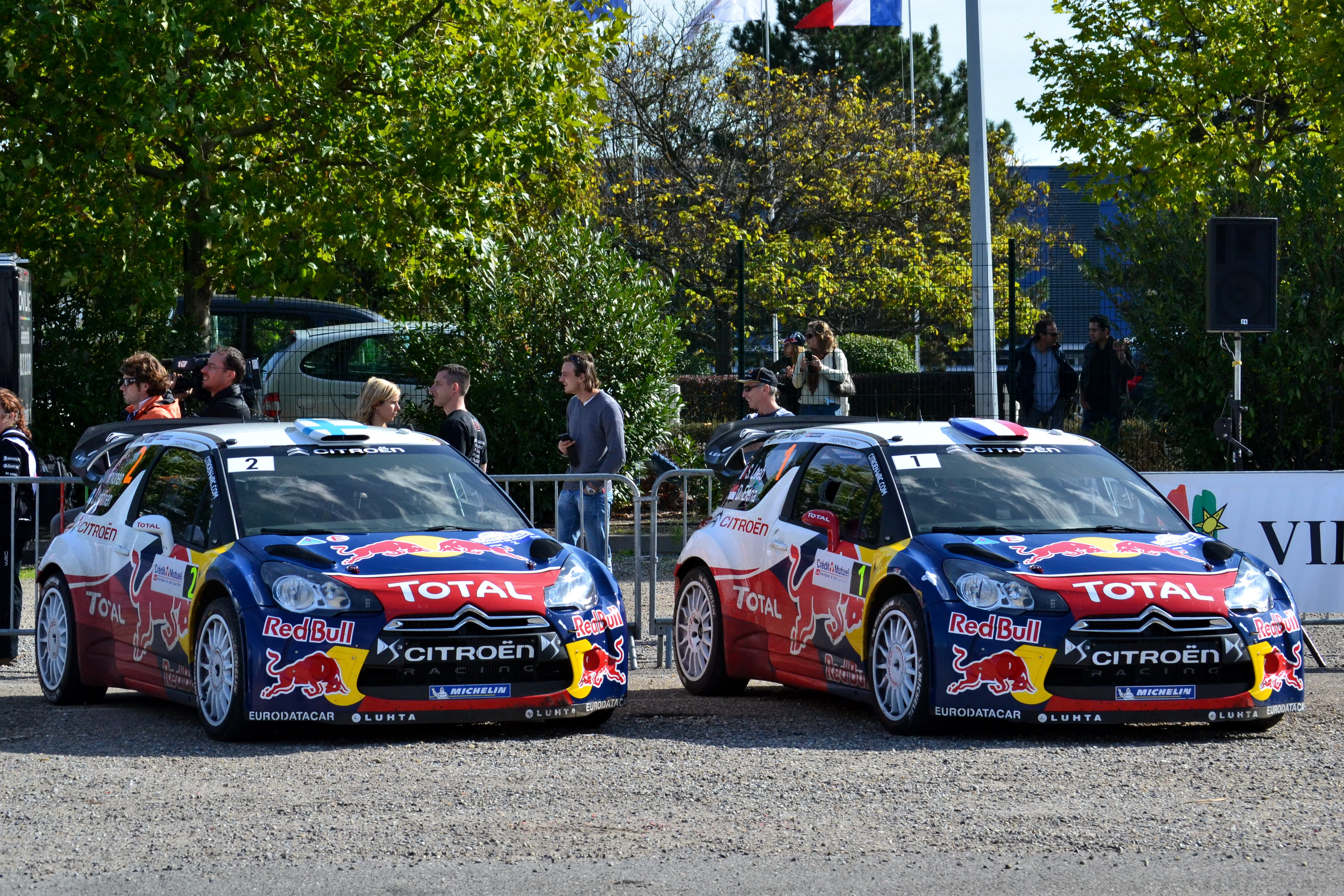 Mikko Hirvonen and Sébastien Loeb's cars at the Colmar Assistance Park during the Rally France-Alsace 2012.